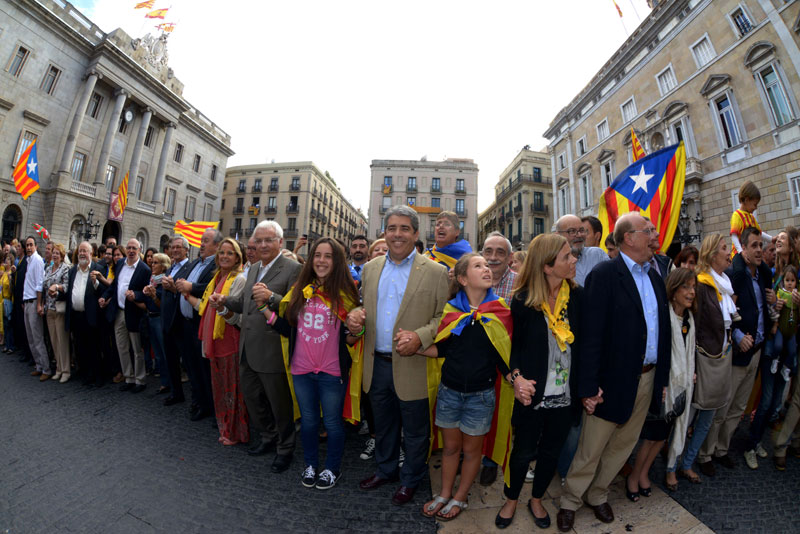 2013 Institutional event of the National Day of Catalonia. In the middle with blue shirt is Francesc Homs.